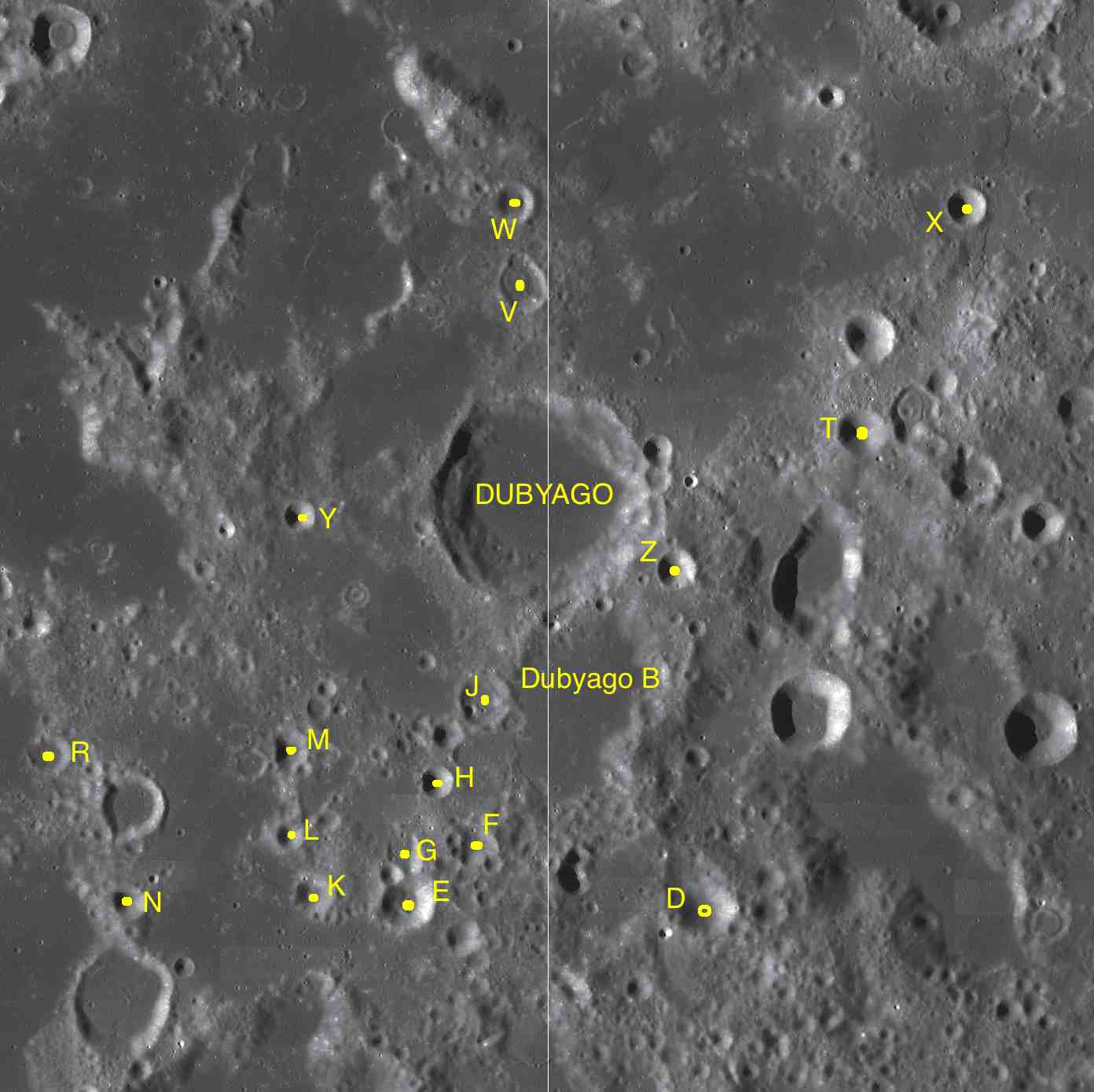 Parts of the charts LAC-62, LAC-63 used for the presentation